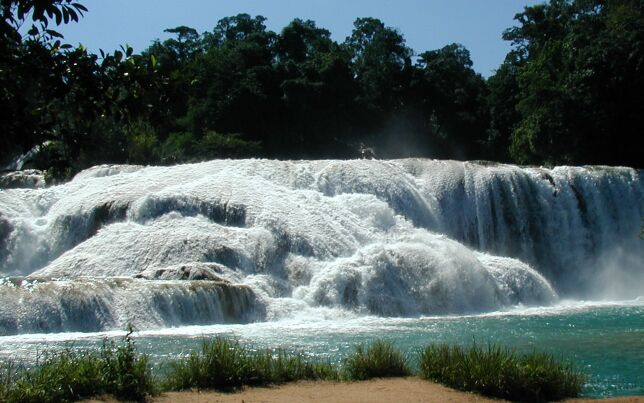 Waterfalls at Agua Azul (“Blue Water”) in Chiapas, Mexico